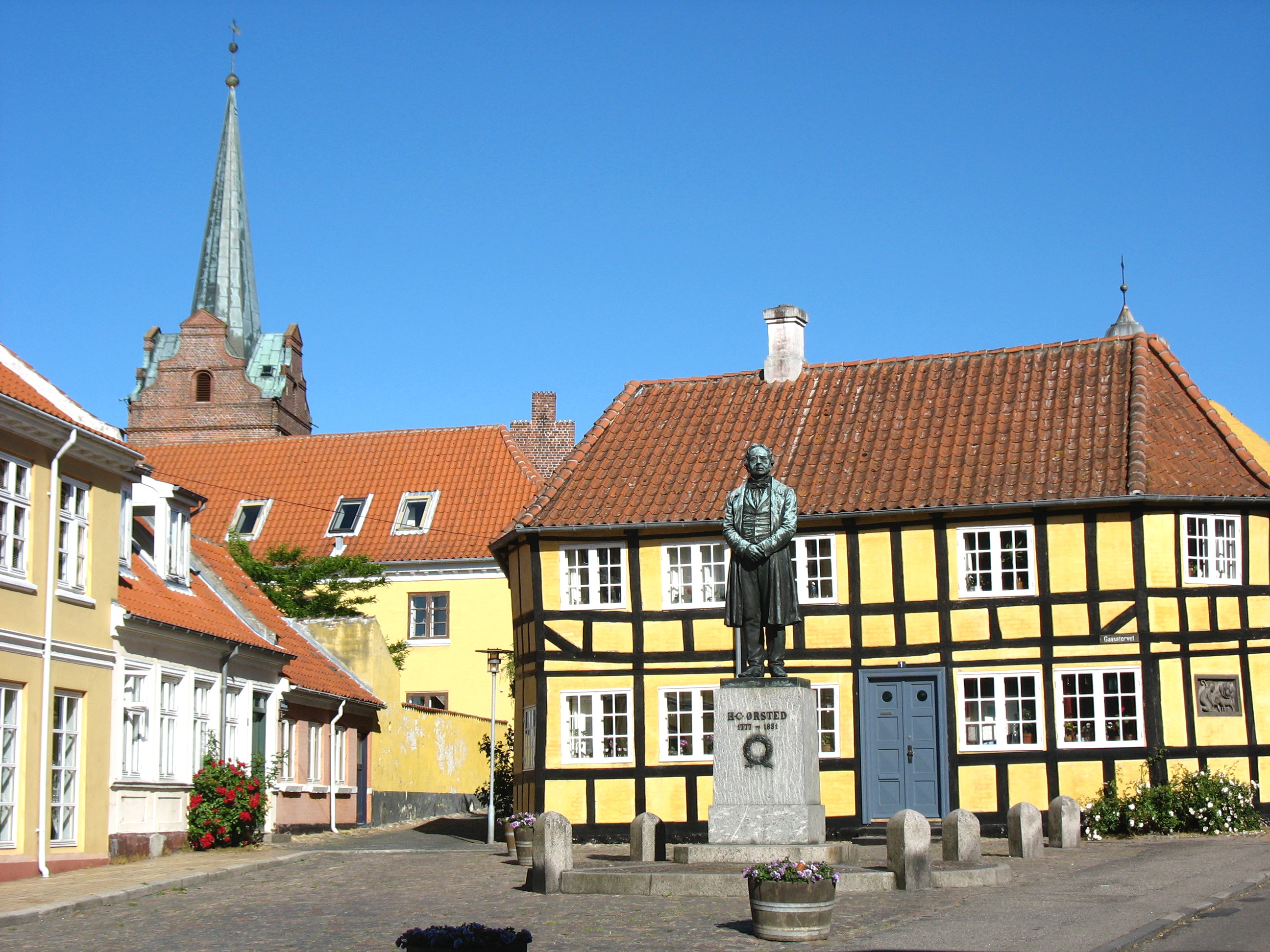 The small square Gåsetorvet on the street Brogade in the Danish town Rudkøbing (on the island Langeland). The statue is of the scientist Hans Christian Ørsted.